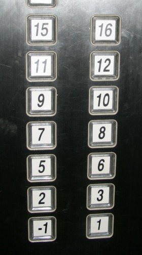 A picture taken in an elevator in a residential apartment block in Shanghai. Floors 0, 4, 13 and 14 are missing.